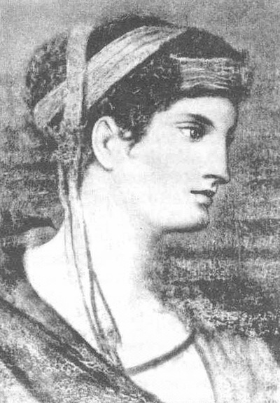 Tfiend of Bethoven